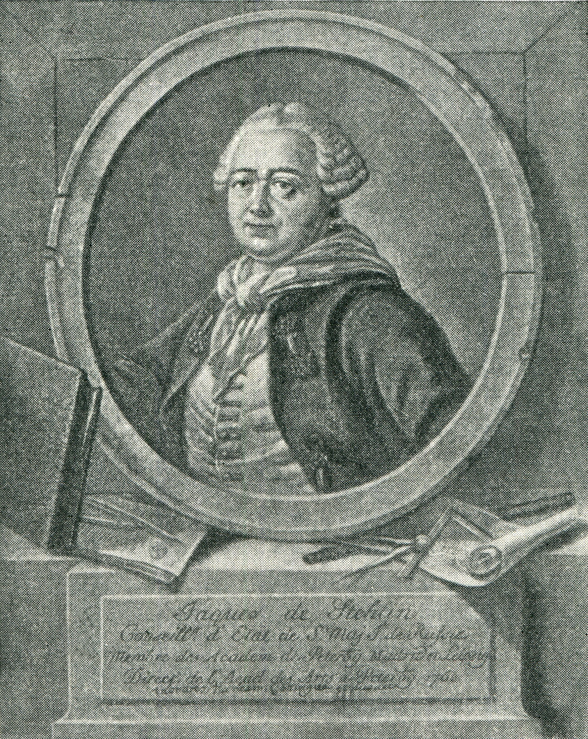 Academician Jacob von Staehlin